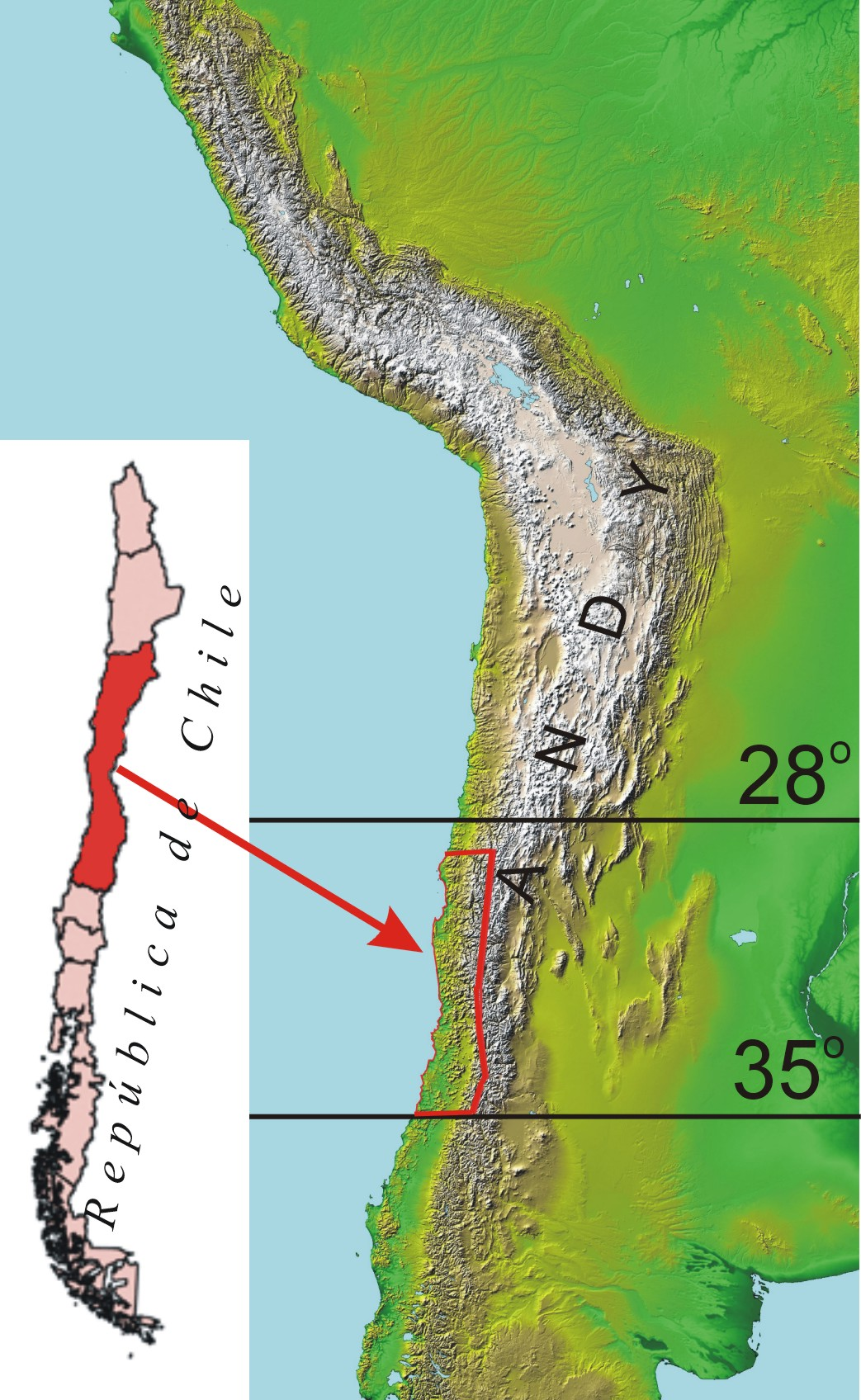 Territory of Octodon Degus in Chile